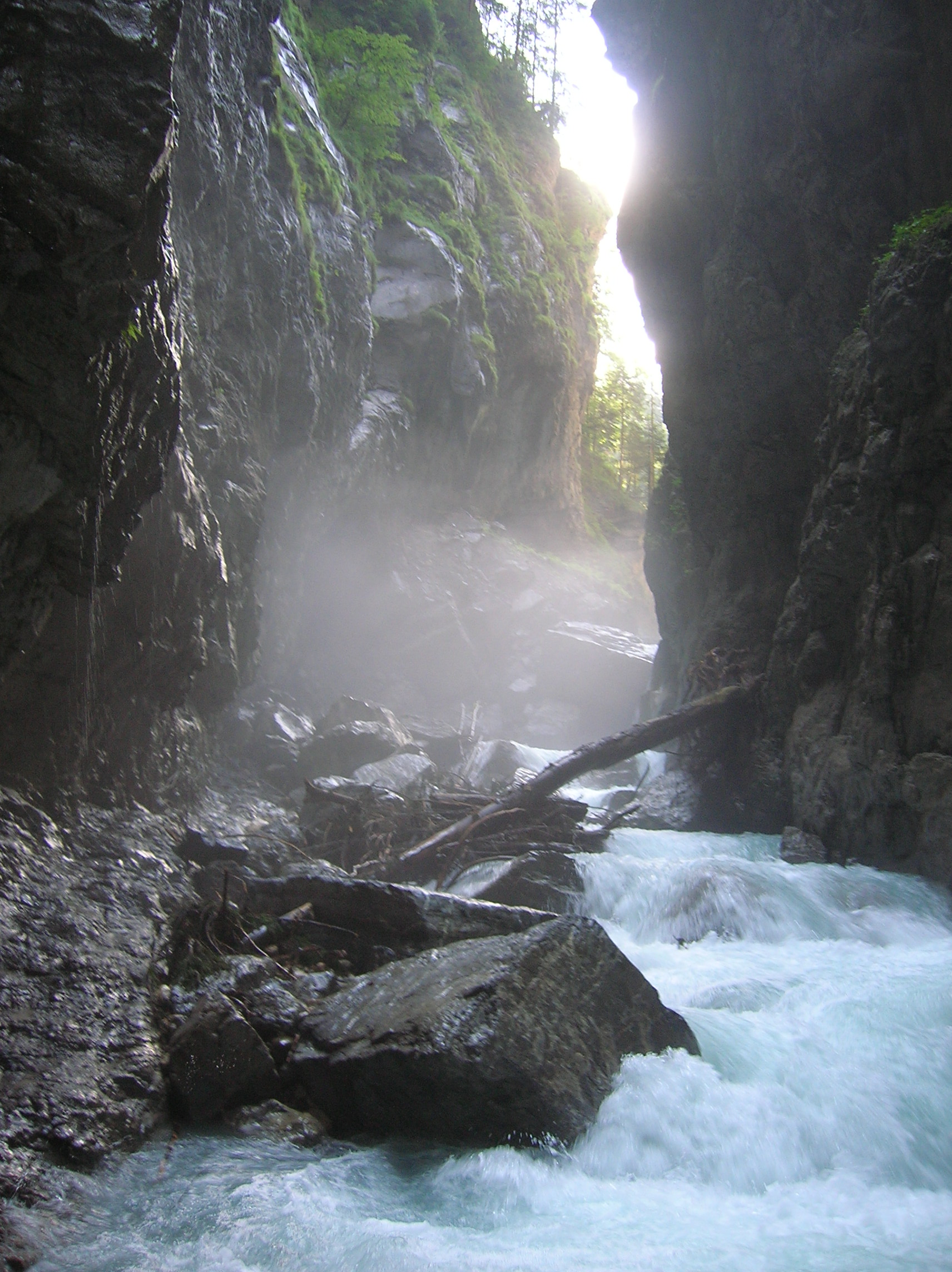 own work (Original text: partnachklamm)